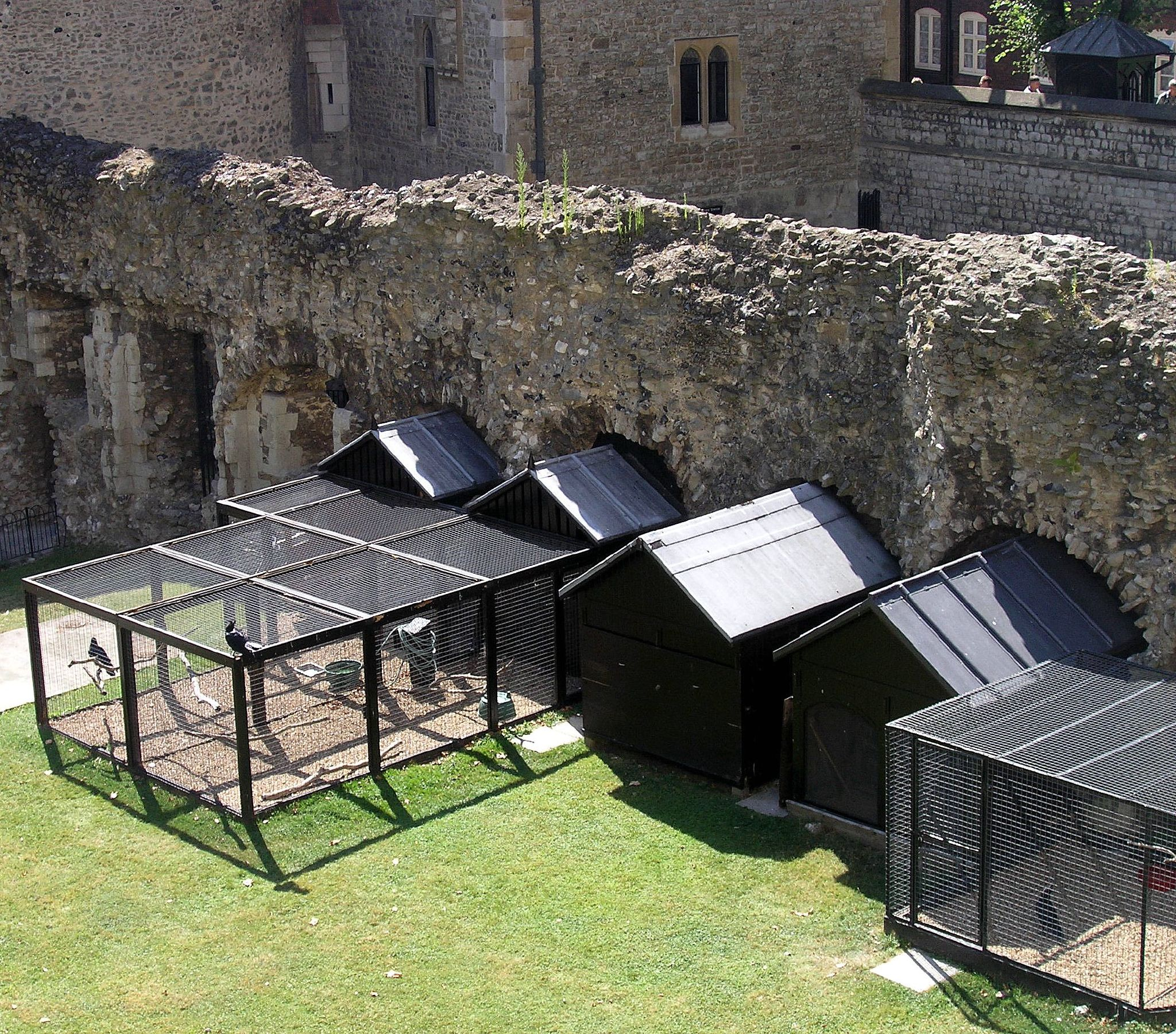 These are the cages for the ravens at the Tower of London, England. The ravens wings are clipped.